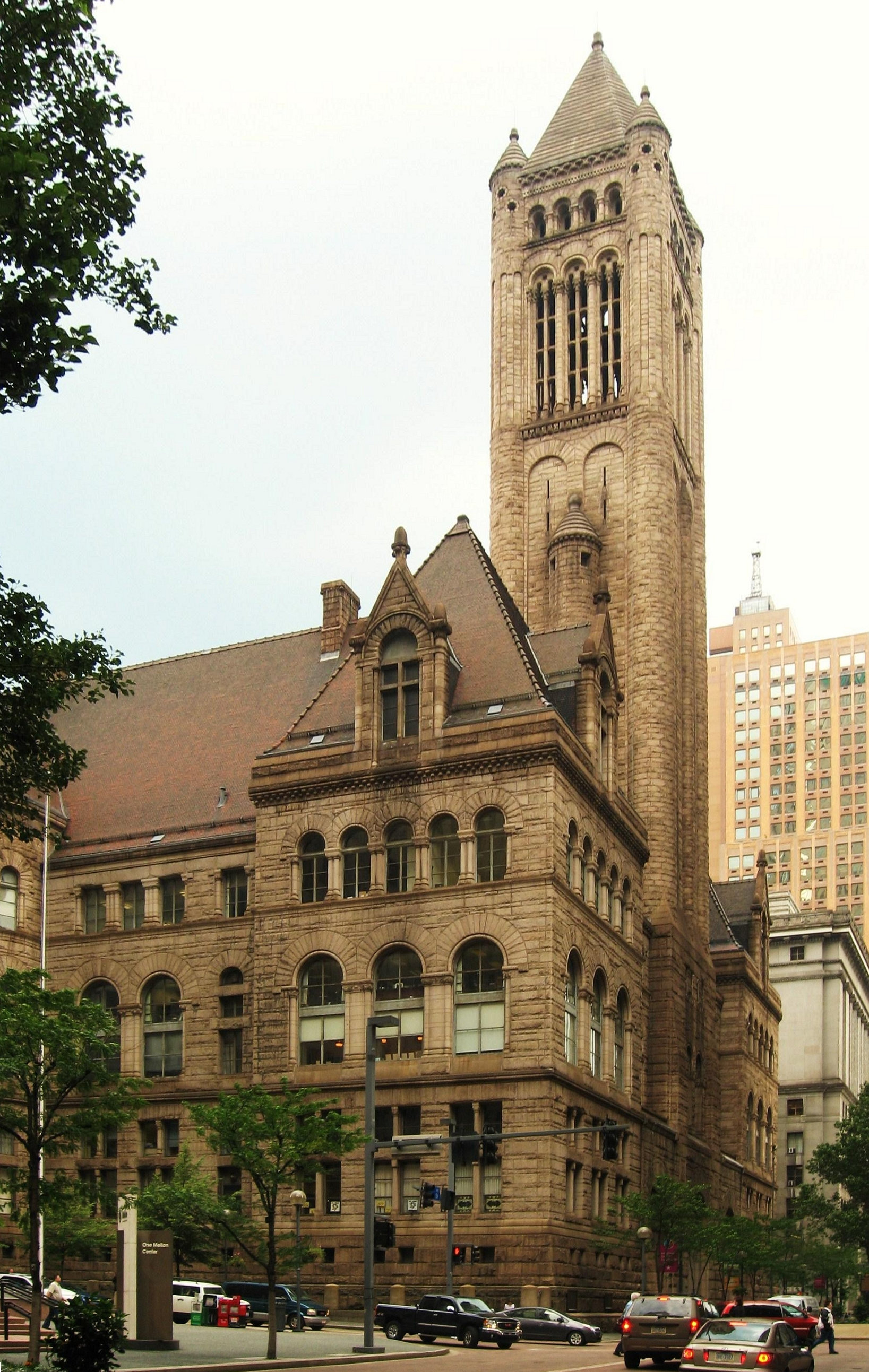 The Allegheny County Courthouse in Pittsburgh40°26′19.6″N 79°59′48.5″W / 40.438778°N 79.996806°W